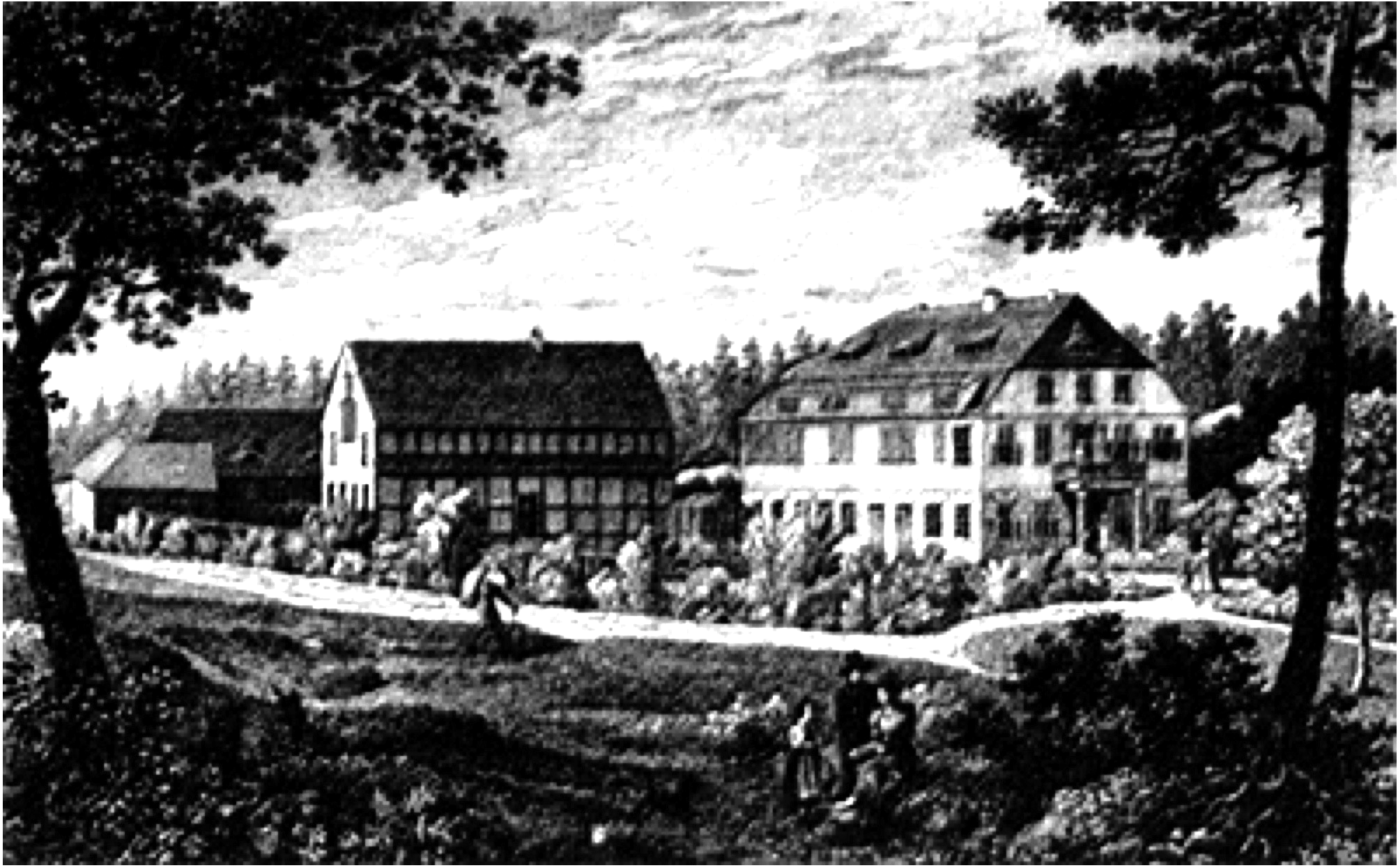 Park of Hermann Killisch-Horn (1821–1886) in Pankow near Berlin, drawing of the 1860s. The manor of the ample estate is shown on the right.